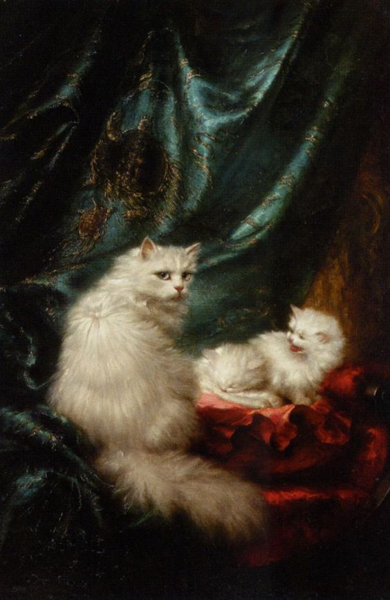 Parlor cats